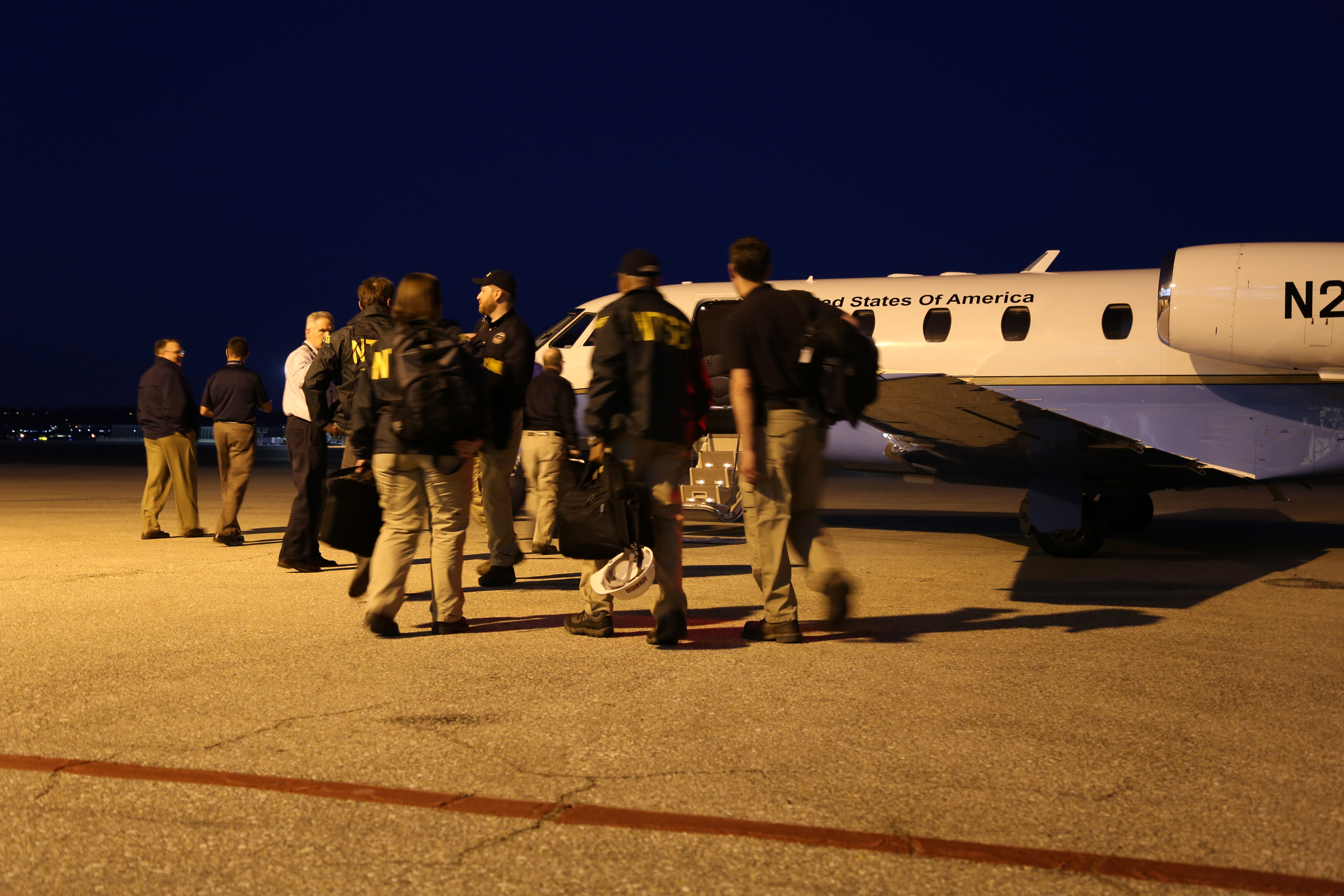 WASHINGTON (March 15, 2018) — Members of the NTSB’s Go Team for the investigation of Thursday’s bridge collapse at Florida International University’s campus board an awaiting FAA plane to travel to Miami. The group arrived at the scene of the accident at about 11 p.m. (NTSB Photo by Chris O’Neil)